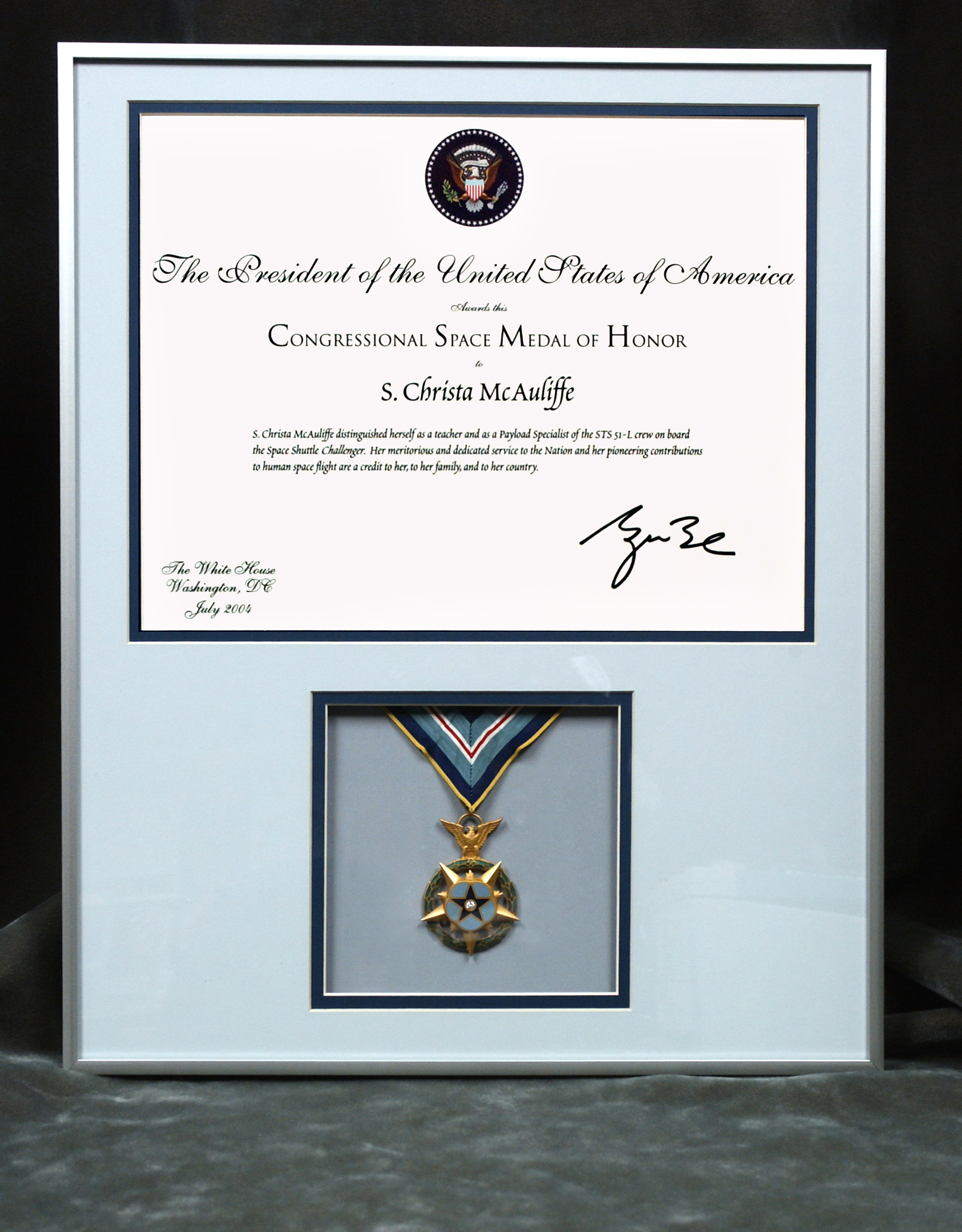 Congressional Space Medal of Honor, given to McAuliffe